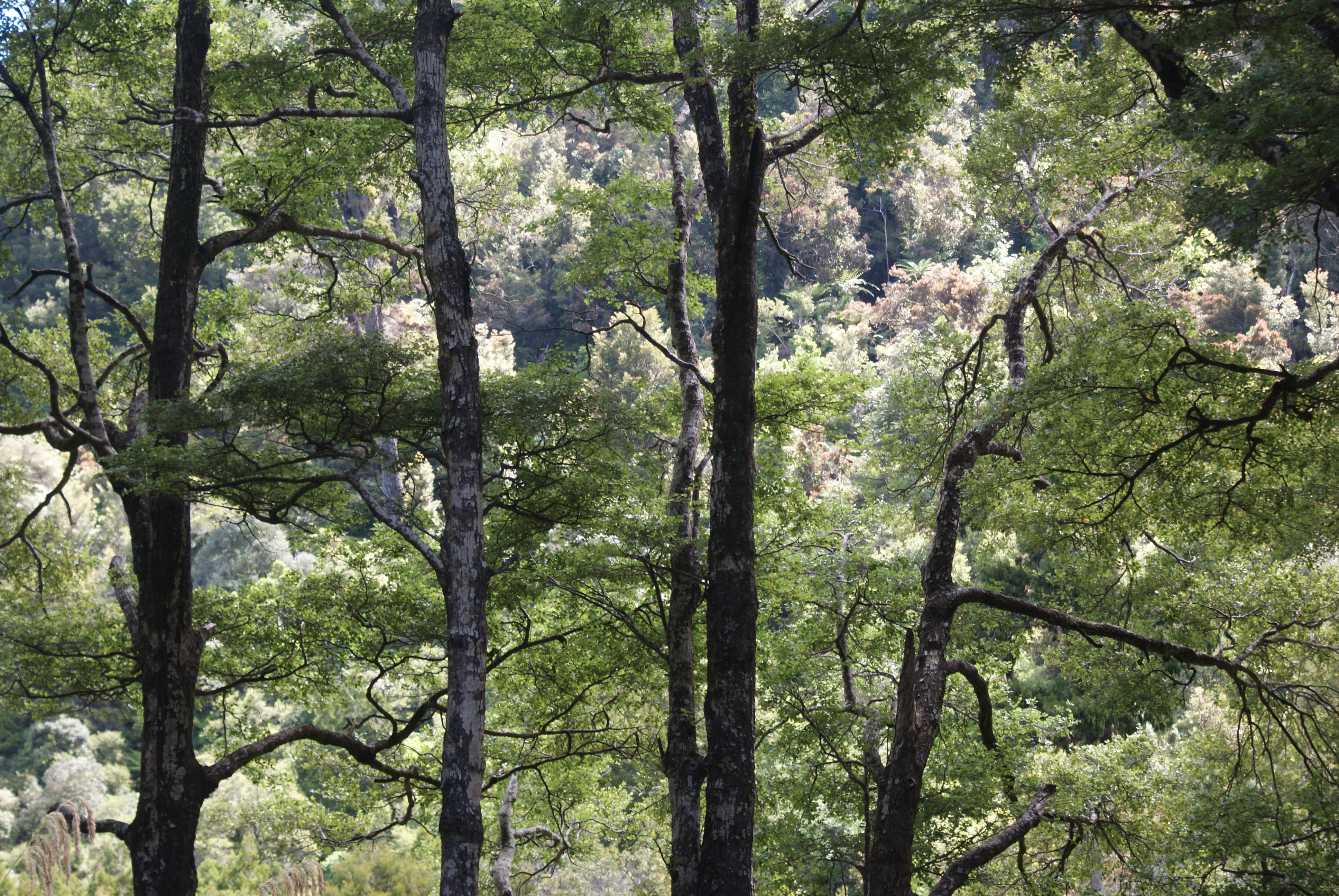 Beech trees and forest - Kaitoke - New Zealand